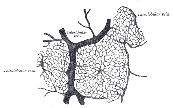 Section of injected liver (dog).